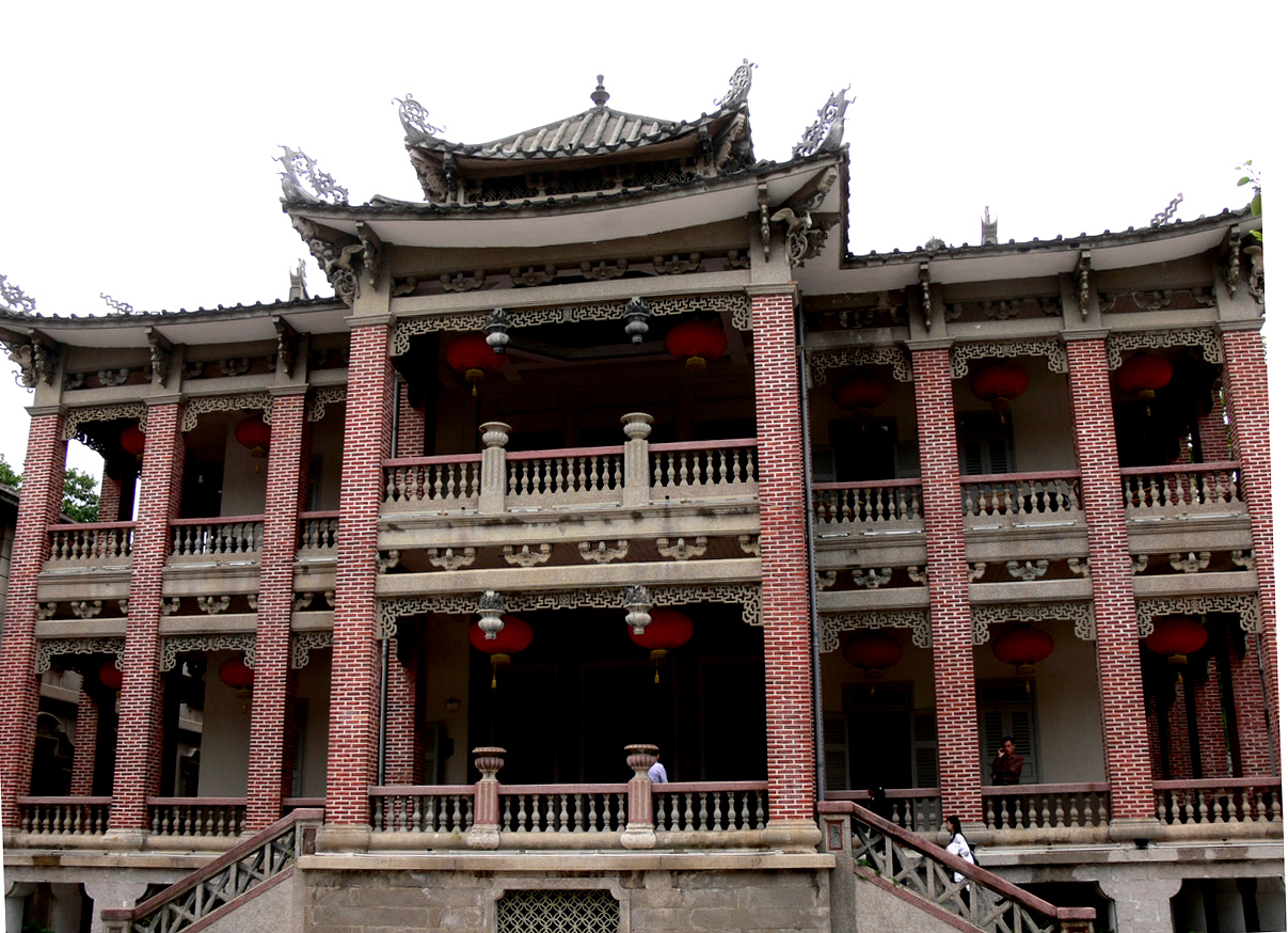 Hai Tian Tang Gou building in Gulangyu